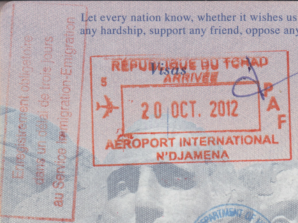 Chad entry passport stamp from 2012. Air crossing.